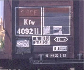 Marquage wagon SNCF 1950